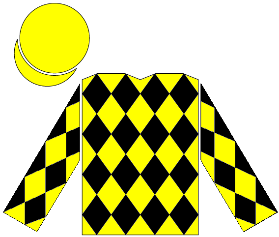 Racing silks of Arrowfield Stud;Other information: I created this in MS Paint using the work of Zafonic, which has been freely released into the public domain, as a template.